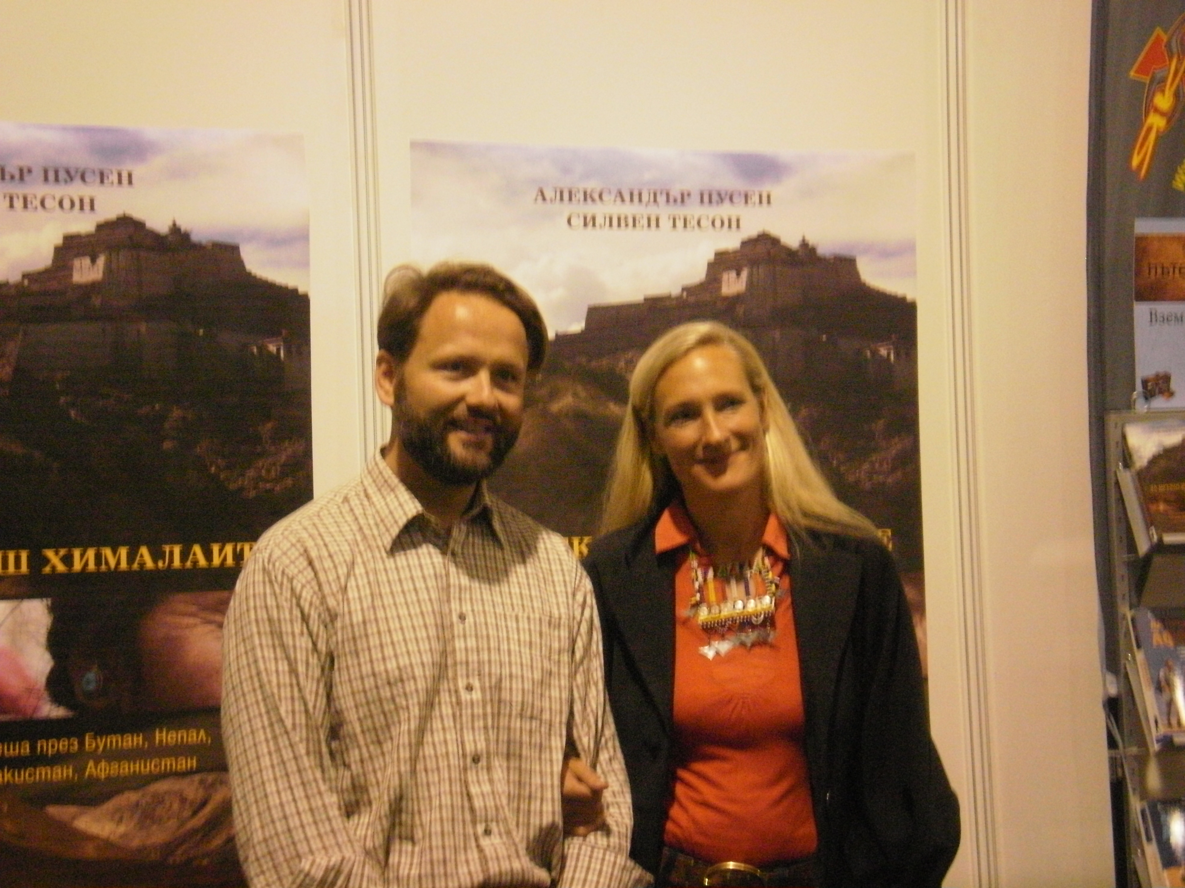 Alexandre Poussin and Sonia Poussin, Adventure & Extreme Expo, Sofia, Bulgaria, 07.04.2012